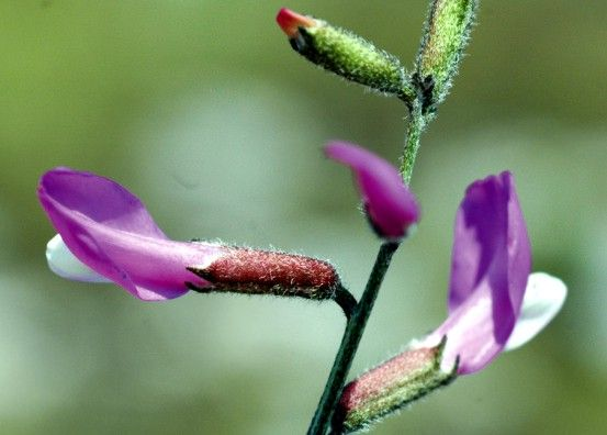 Astragalus mayeri